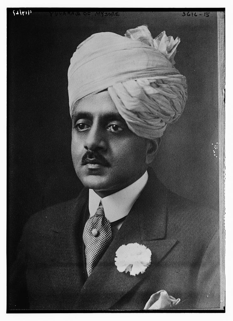 Kanteerava Narasimharaja Wodeyar (1888-1940), the Yuvaraja of Mysore